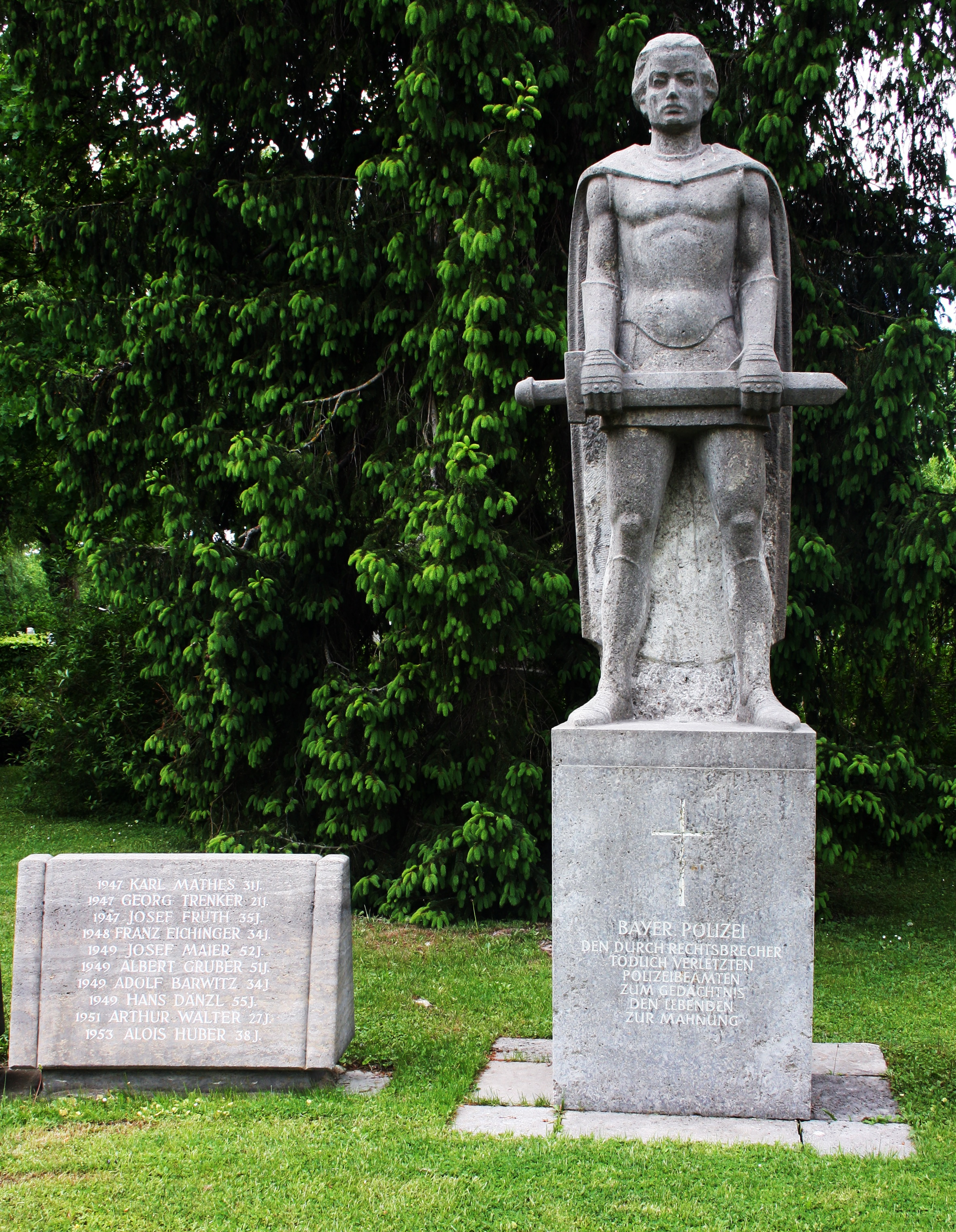 Statue at Munich western cemetery. Situated to the memory of officers killed on duty in Bavaria.